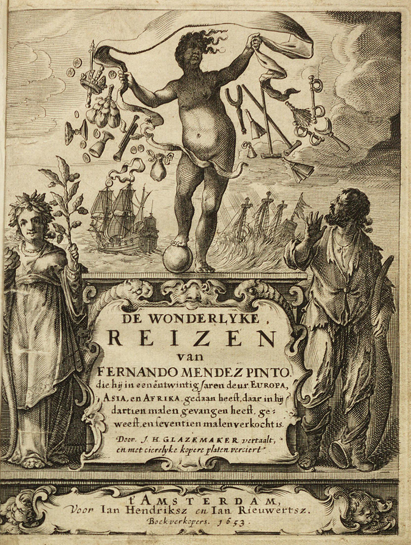 Frontispiece of the 1653 Dutch translation of Fernão Mendes Pinto's Peregrinaçam (1614).